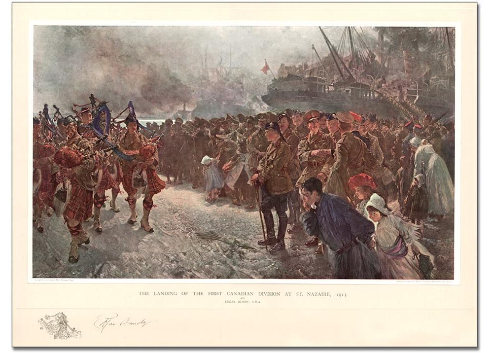 print from artwork 1916 This painting is displayed in the Senate Chamber on Parliament Hill.